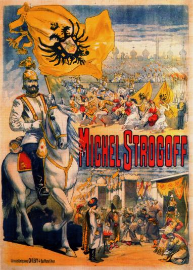 Poster for the first performance of Jules Verne and Adolphe d'Ennery's play Michel Strogoff at the Théâtre du Châtelet, Paris, 17 November 1880